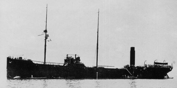 IJN oiler SHIJIKI at Kure Naval Base.